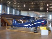 (Photographer: Mark Clayton)